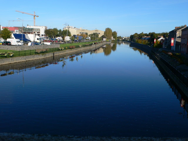 River Nore Taken from the bridge at Lower John Street